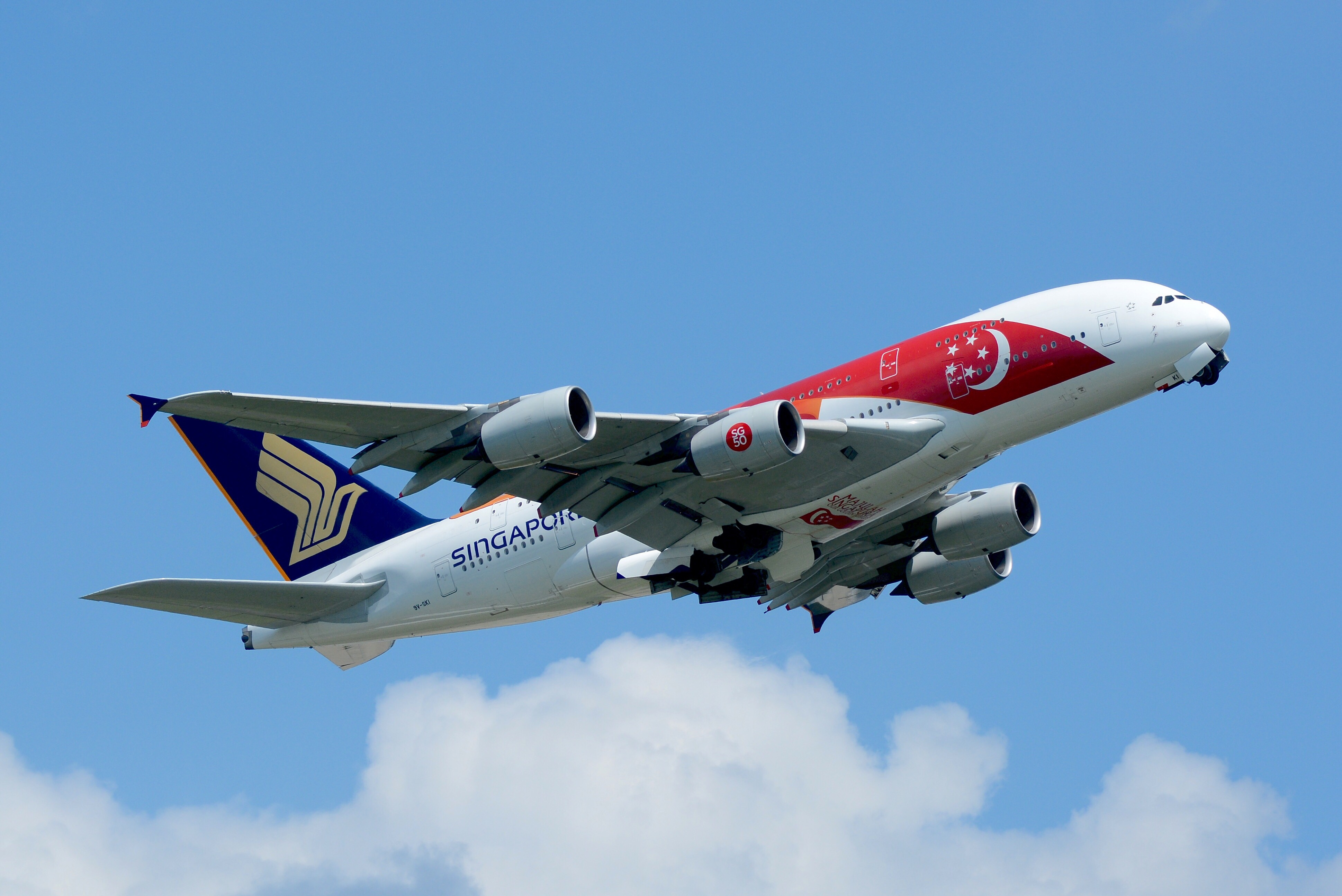 Singapore Airlines, Airbus A380-800 9V-SKI '50th anniversary of Singapore' NRT